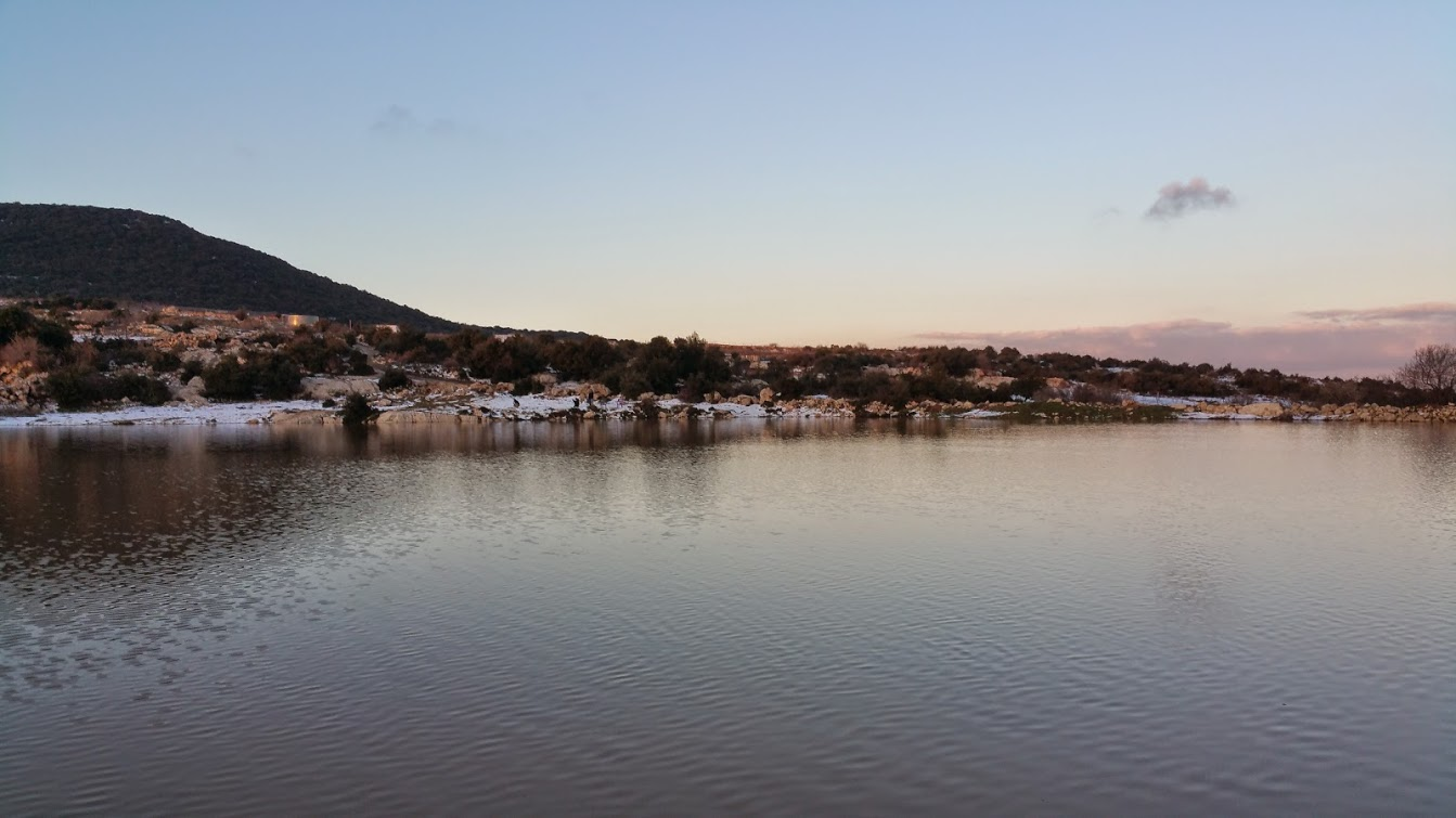 beat jan, Geography of Israel